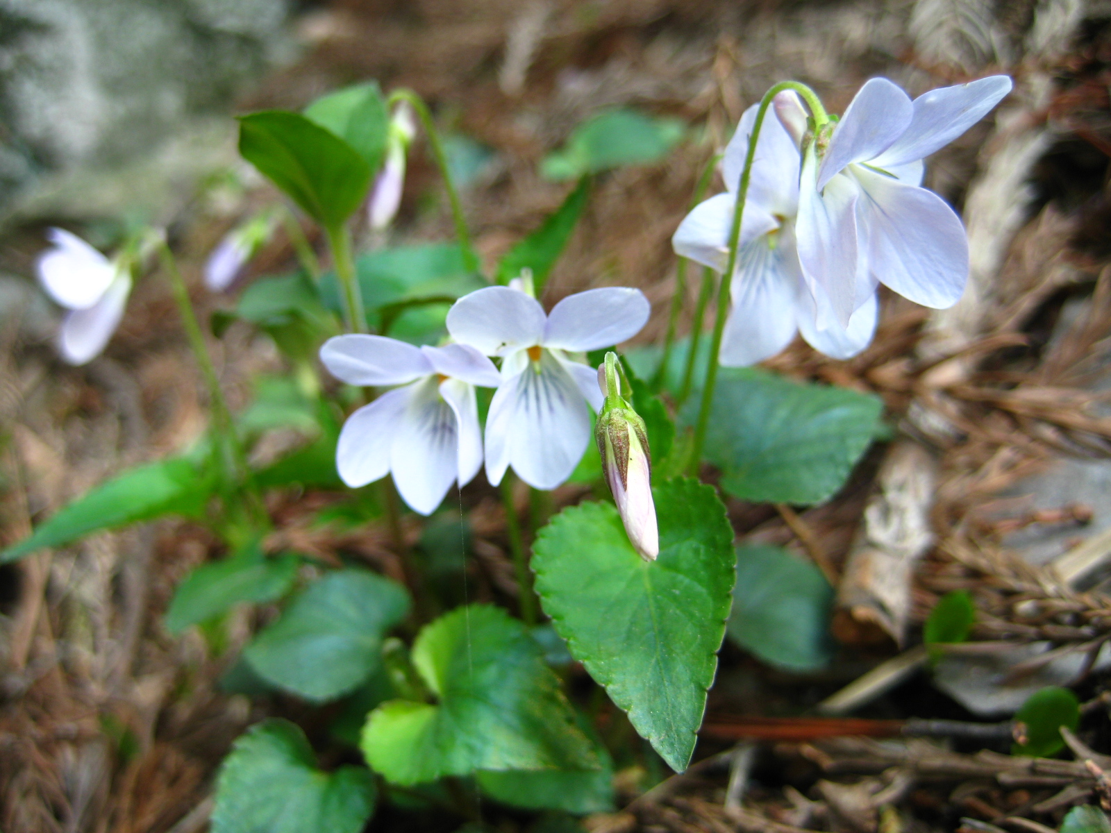 Viola stewardiana Taken in Mt. Lushan